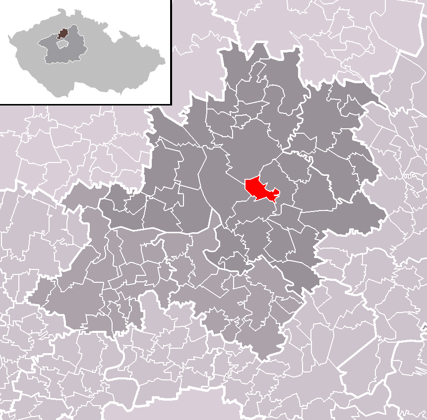 Location of Lhotka municipality within Mělník District and administrative area of Mělník as a Municipality with Extended Competence.